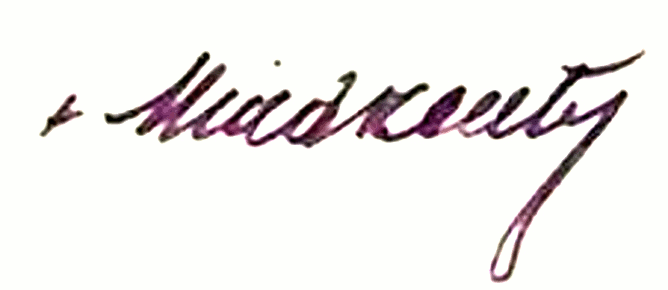 signature of József Mindszenty, archbishop of Esztergom.